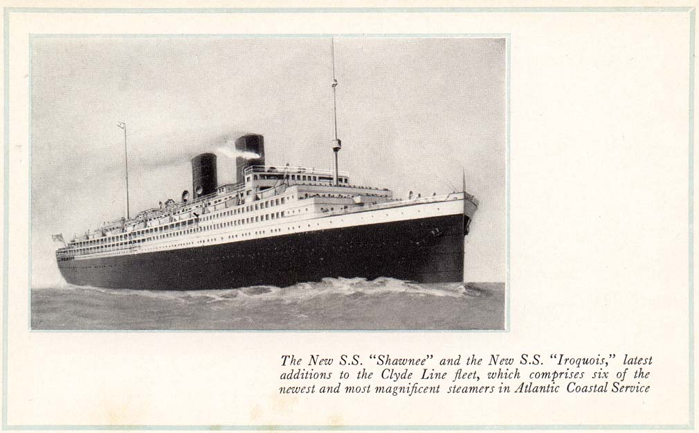 From the collection of Björn Larsson, [1]